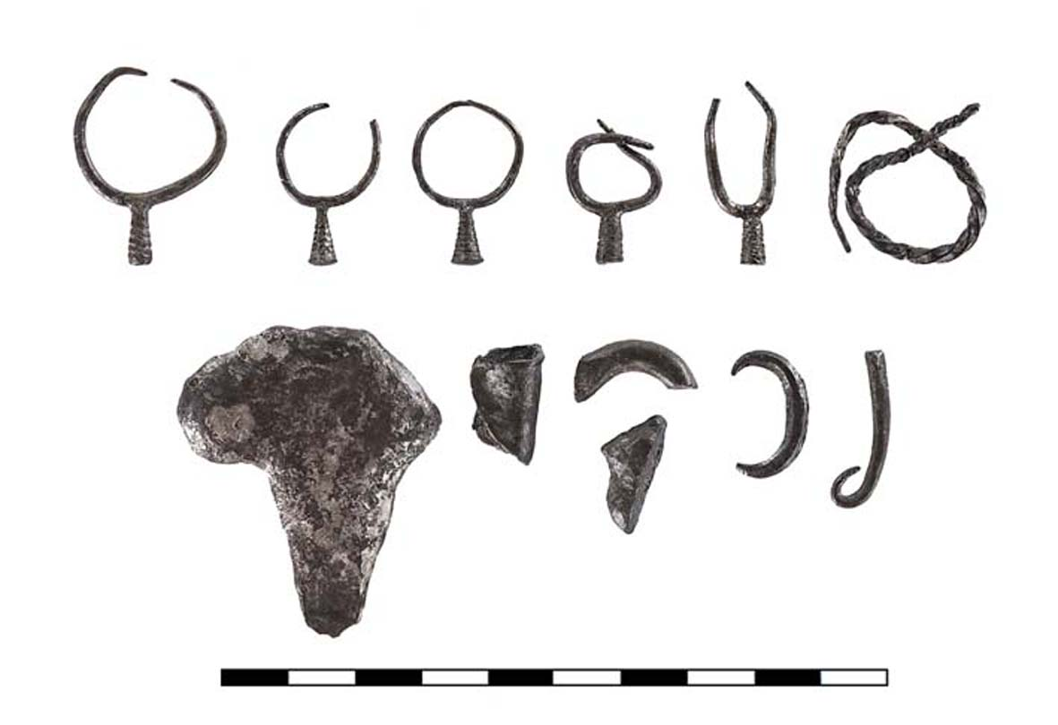 The silver hoard pieces after cleaning and conservation (by Miriam Lavi, the Hebrew University of Jerusalem; photo by Gabi Laron)